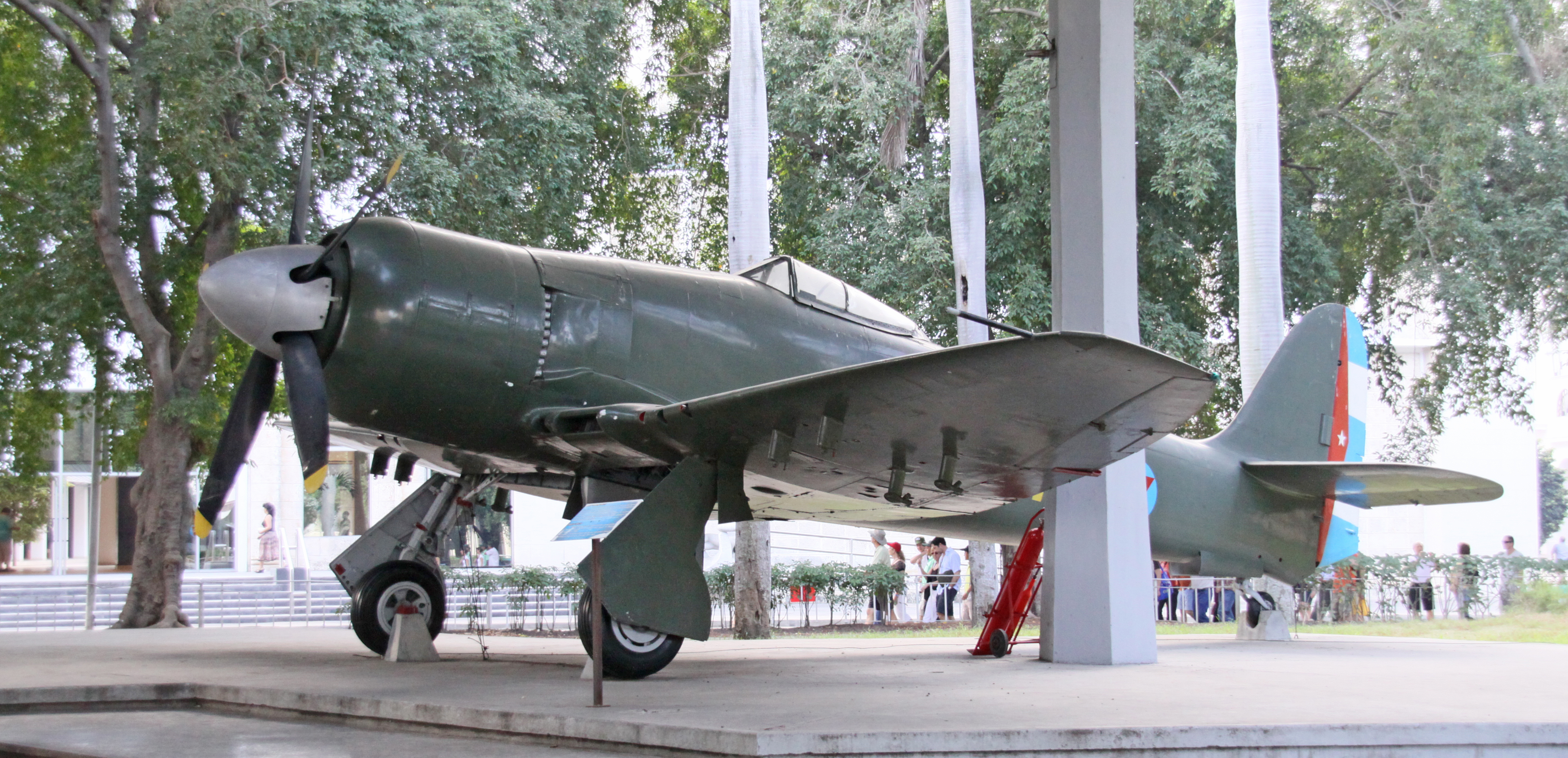 Hawker Sea Fury F50. Cuba bought several of these and used them to help repel the 'bay of pigs' invasion